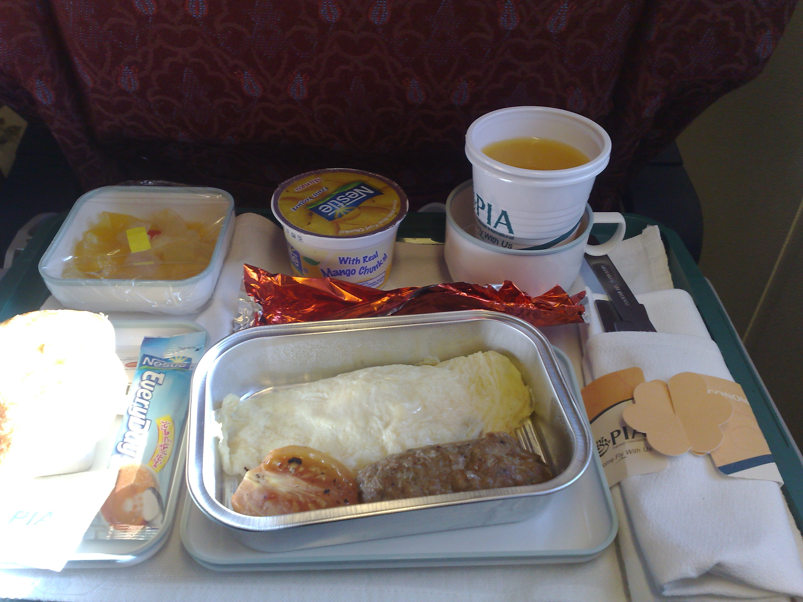 Breakfast in economy class of Pakistan International Airlines.